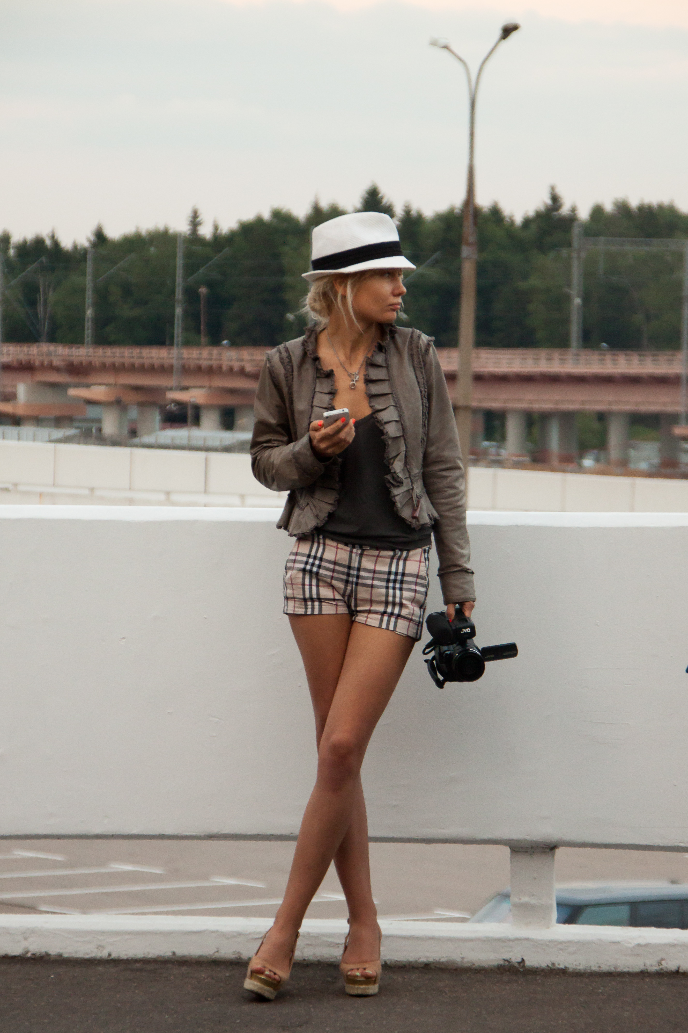 Edward Joseph Snowden - Arrival at Sheremetyevo International Airport